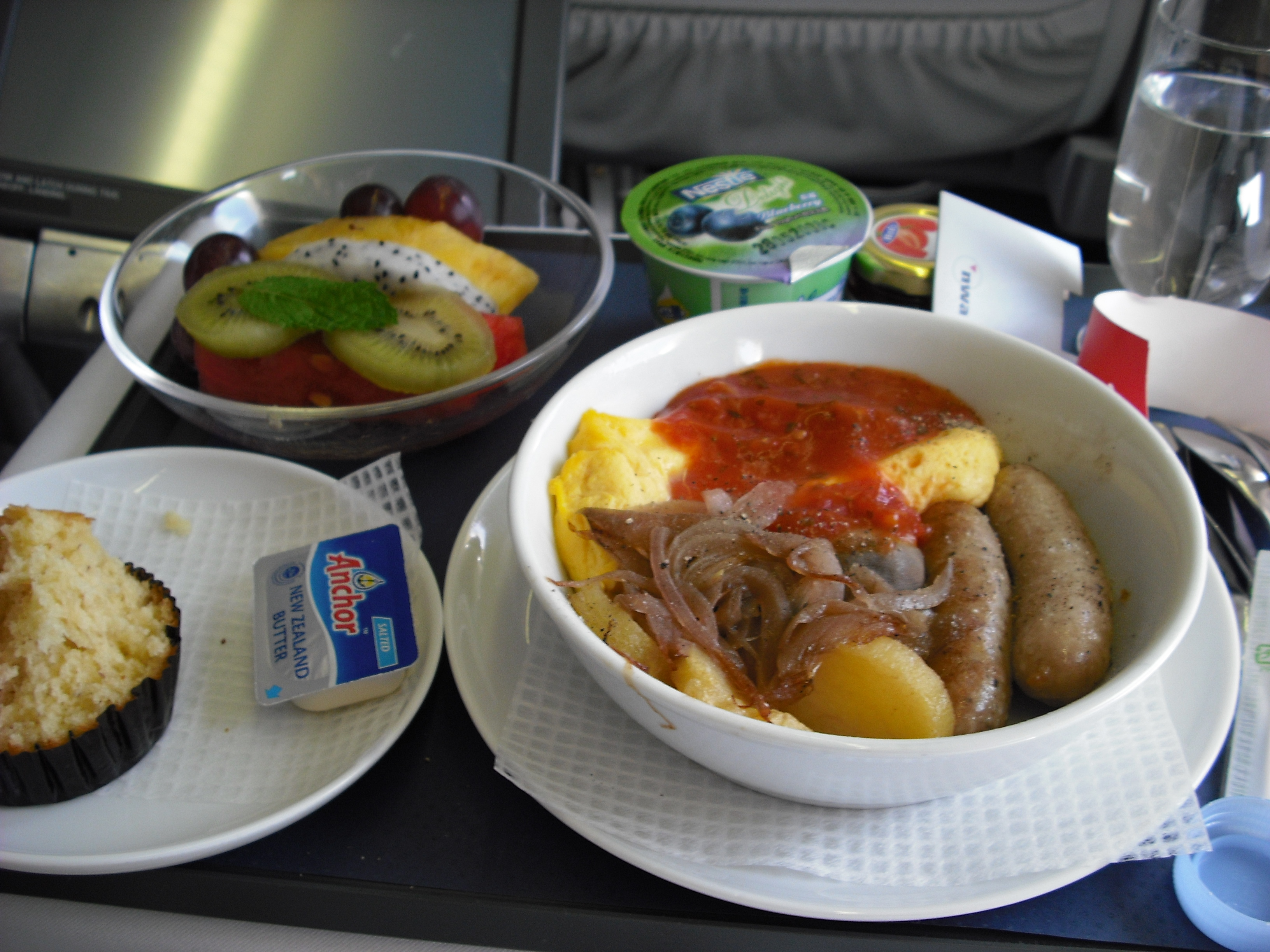 Breakfast of NWA Business Class.